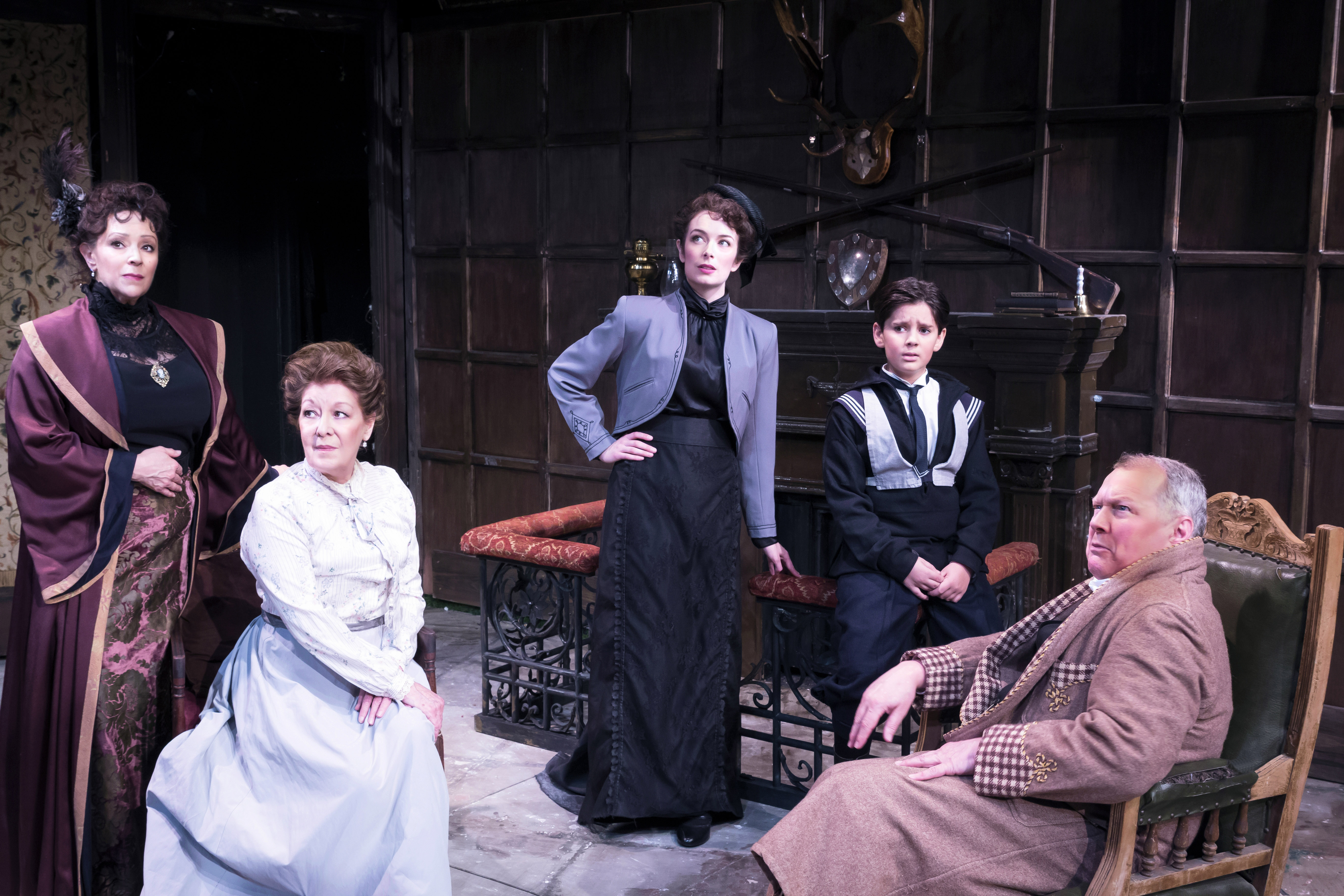 Jenk Oz, 'Last of the De Mullins', Jermyn Street Theatre, London UK, 2015